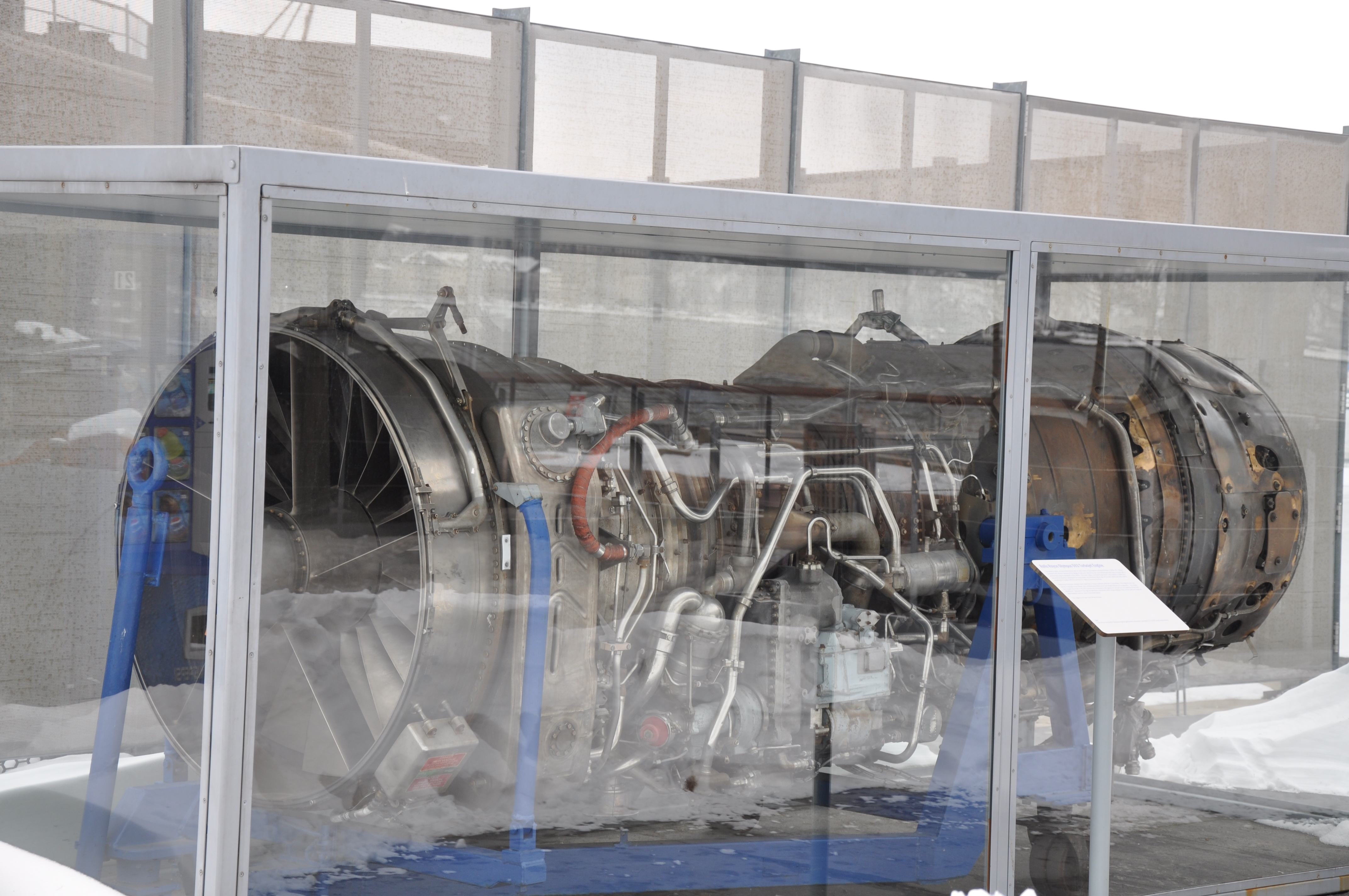 The Rolls-Royce/Snecma Olympus 593 was a reheated (afterburning) turbojet which powered the supersonic airliner Concorde. Initially a joint project between Bristol Siddeley and Snecma based on Bristol's Olympus engine, Rolls-Royce Limited acquired Bristol, making it a division of Rolls-Royce. Until Concorde's regular commercial flights ceased, the Olympus turbojet was unique in aviation as the only afterburning turbojet powering a commercial aircraft. Installed in Concorde and while operating at Mach 2, Rolls-Royce engineers claimed that it was the world's most efficient jet engine